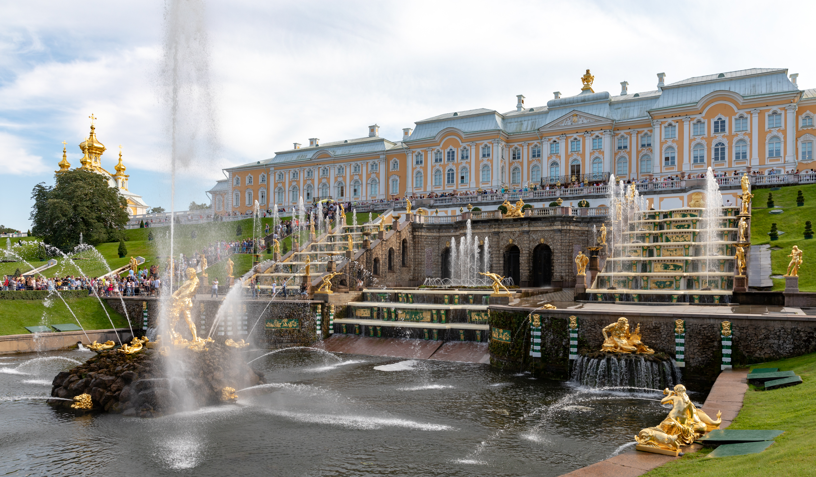 The Peterhof Palace is a series of palaces and gardens located in Petergof, Saint Petersburg, Russia, laid out on the orders of Peter the Great. These palaces and gardens are sometimes referred as the "Russian Versailles". The palace-ensemble along with the city center is recognized as a UNESCO World Heritage Site. Peter began construction of the palace in 1714 and it was completed in 1725. Architects: Jean-Baptiste Le Blond and Bartolomeo Rastrelli. Baroque style. (Wikipedia)